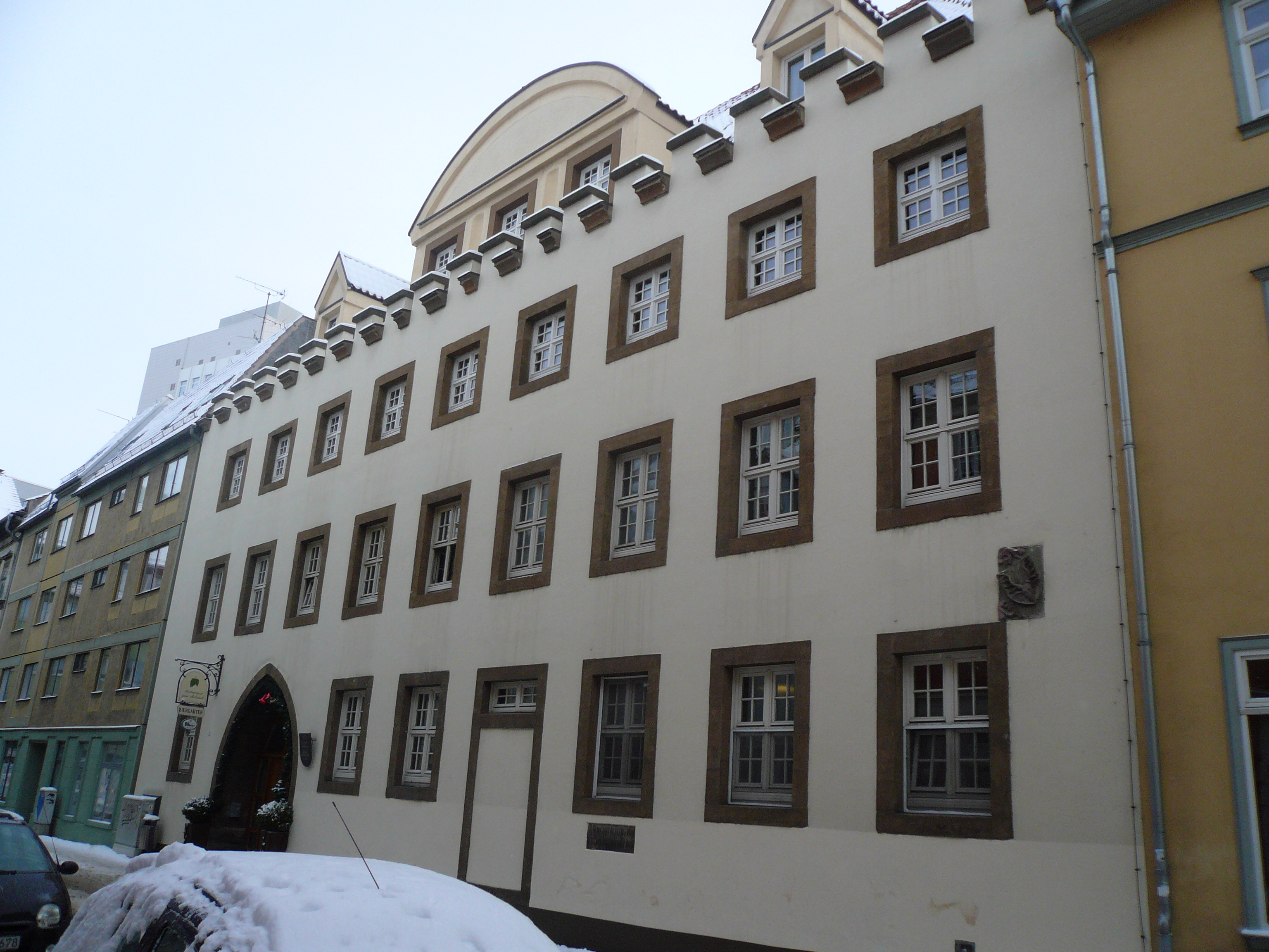 The house "Zum großen und kleinen Rebstock" in Erfurt, Germany